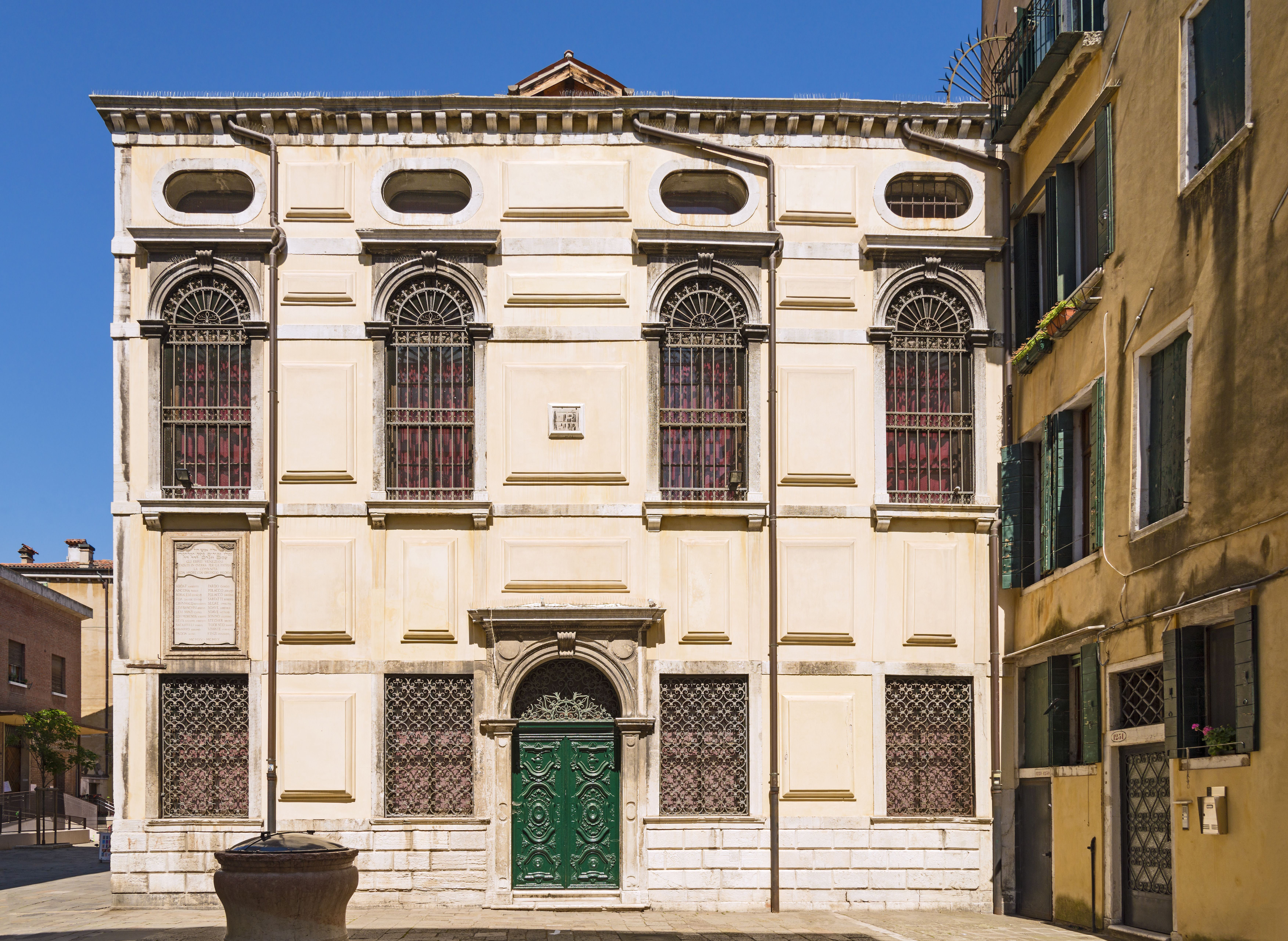 Facade of "Schola" (ie synagogue) "Levantine" (the XVIII cent.), In the Campo delle Scole ghetto of Venice